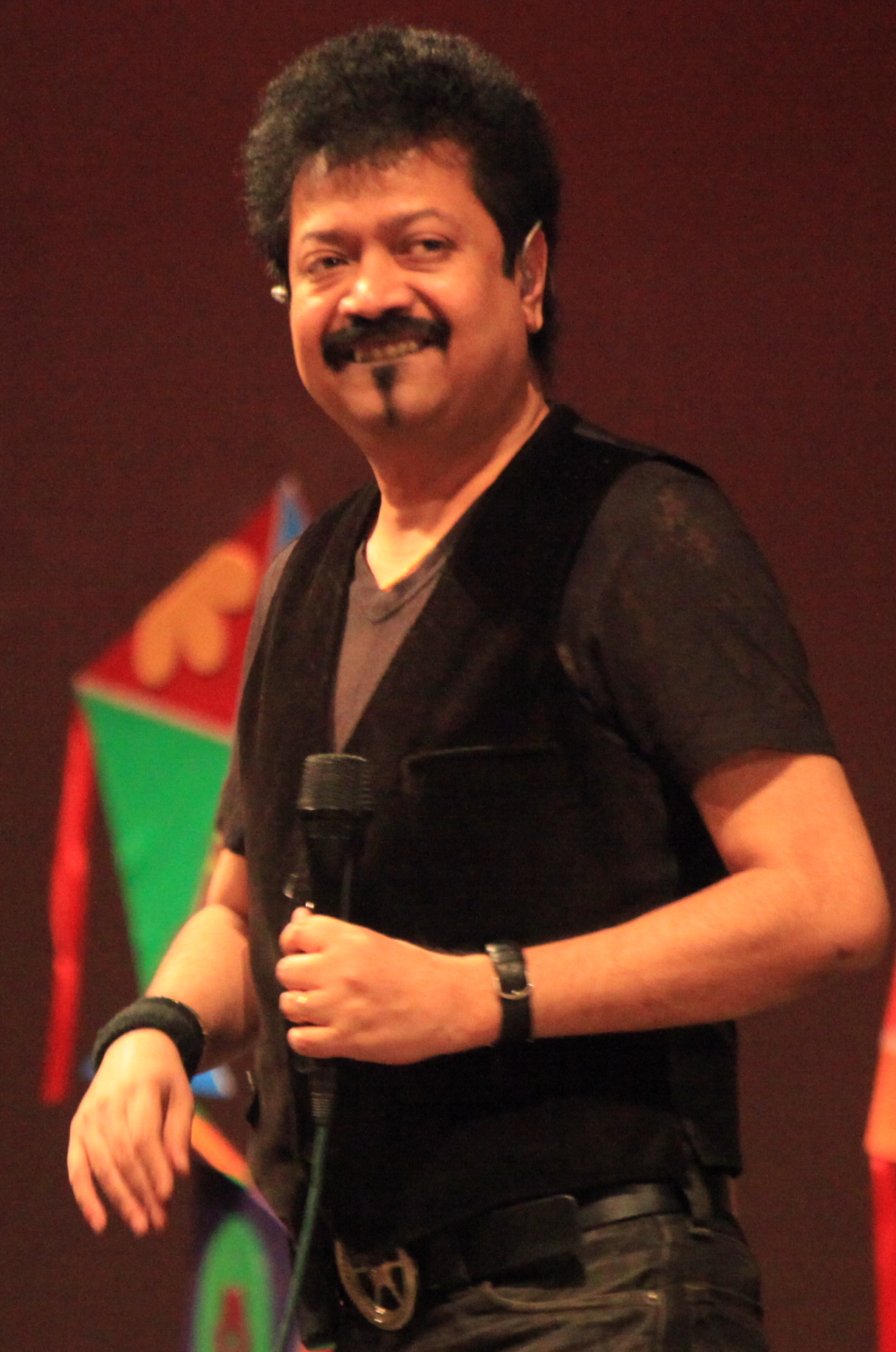 Kumar Biswajit performed in Evergreen Valley High School, San Jose in a fund raising program organized by SpandanB